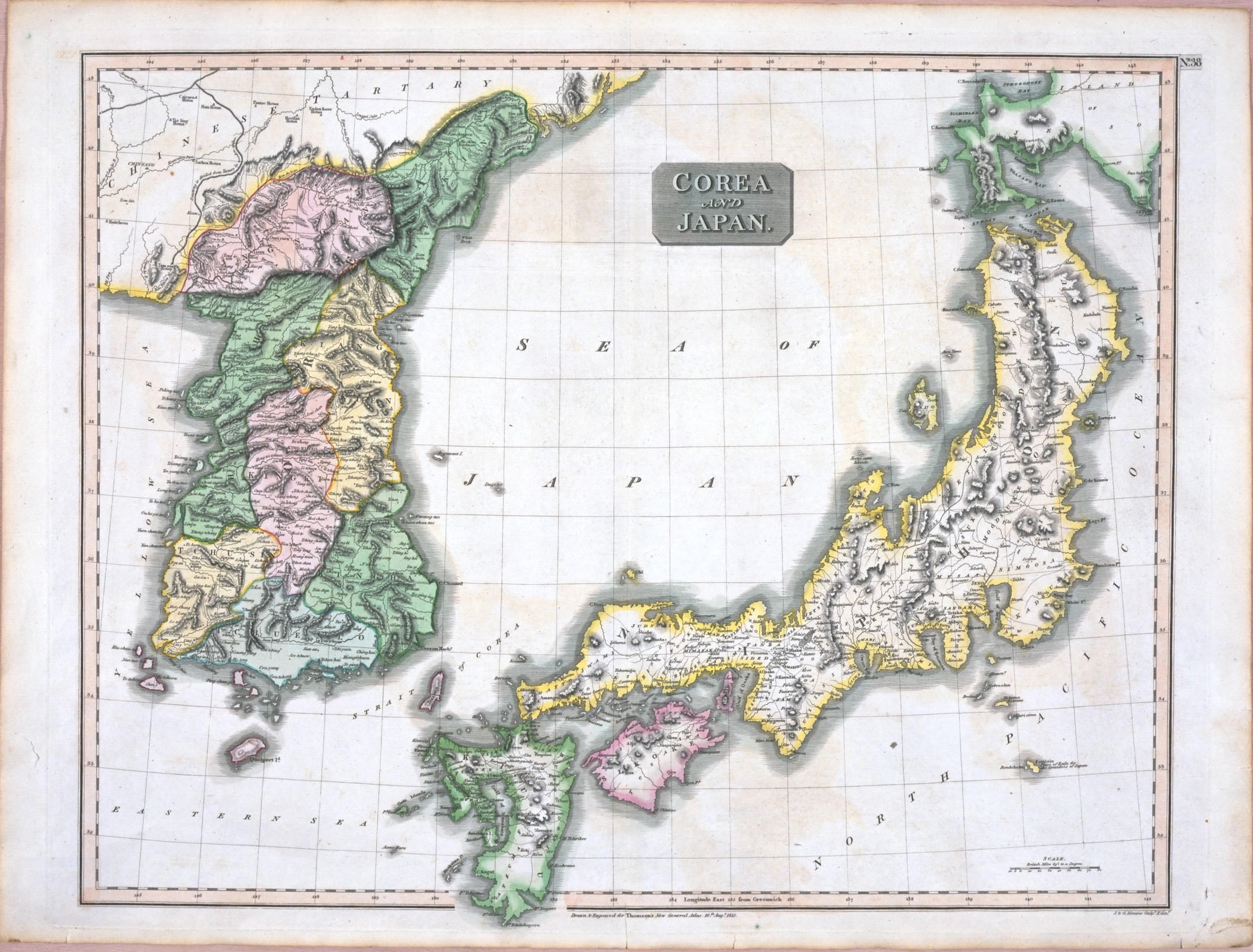 The map which is written "Sea of Japan" and was published on United Kingdom in 1815